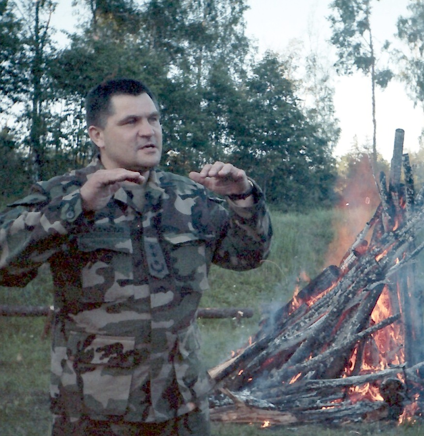 Vytautas Lukavičius, colonel, Lithuania